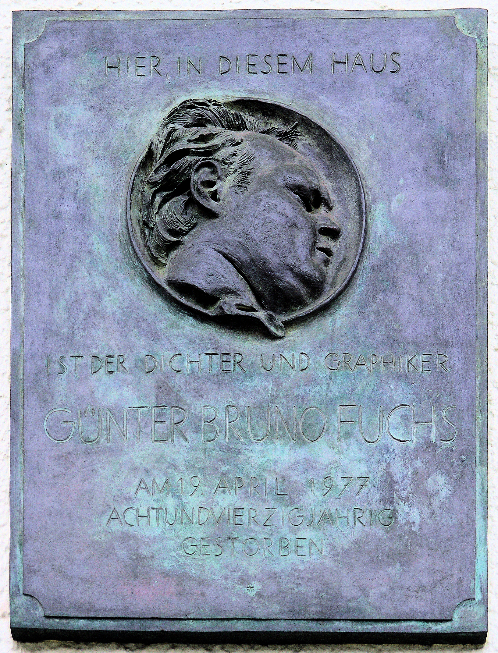 Memorial plaque, Günter Bruno Fuchs, Güntzelstraße 53, Berlin-Wilmersdorf, Germany Koordinate:52°29′27.2″N 13°19′44.2″E / 52.490889°N 13.328944°E